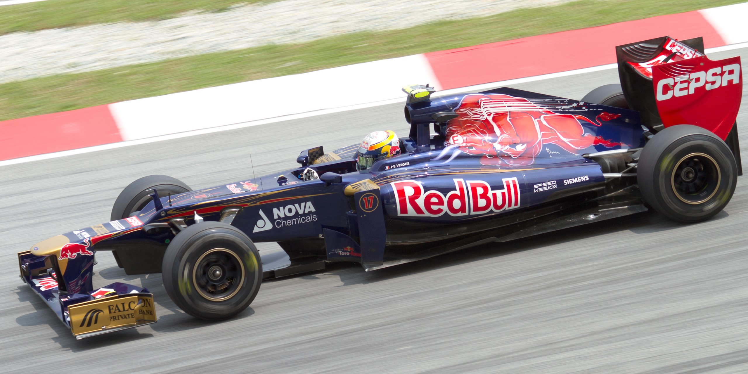 Formula One 2012 Rd.2 Malaysian GP: Jean-Éric Vergne (Toro Rosso) during the second practice session on Friday.